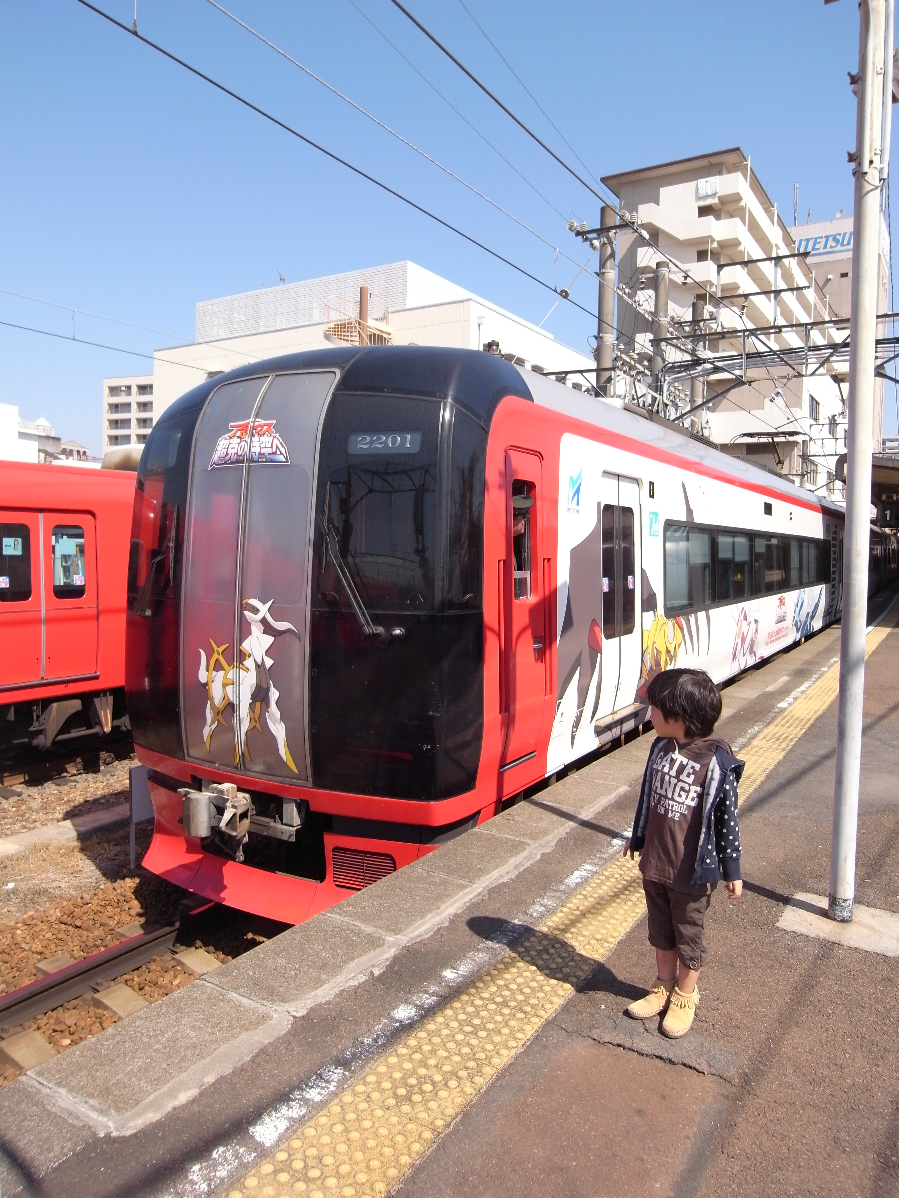 Meitetsu 2200 series EMU with Pokémon character Arceus design on front